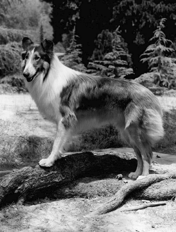 Photo portrait of Lassie from the televison program of the same name.